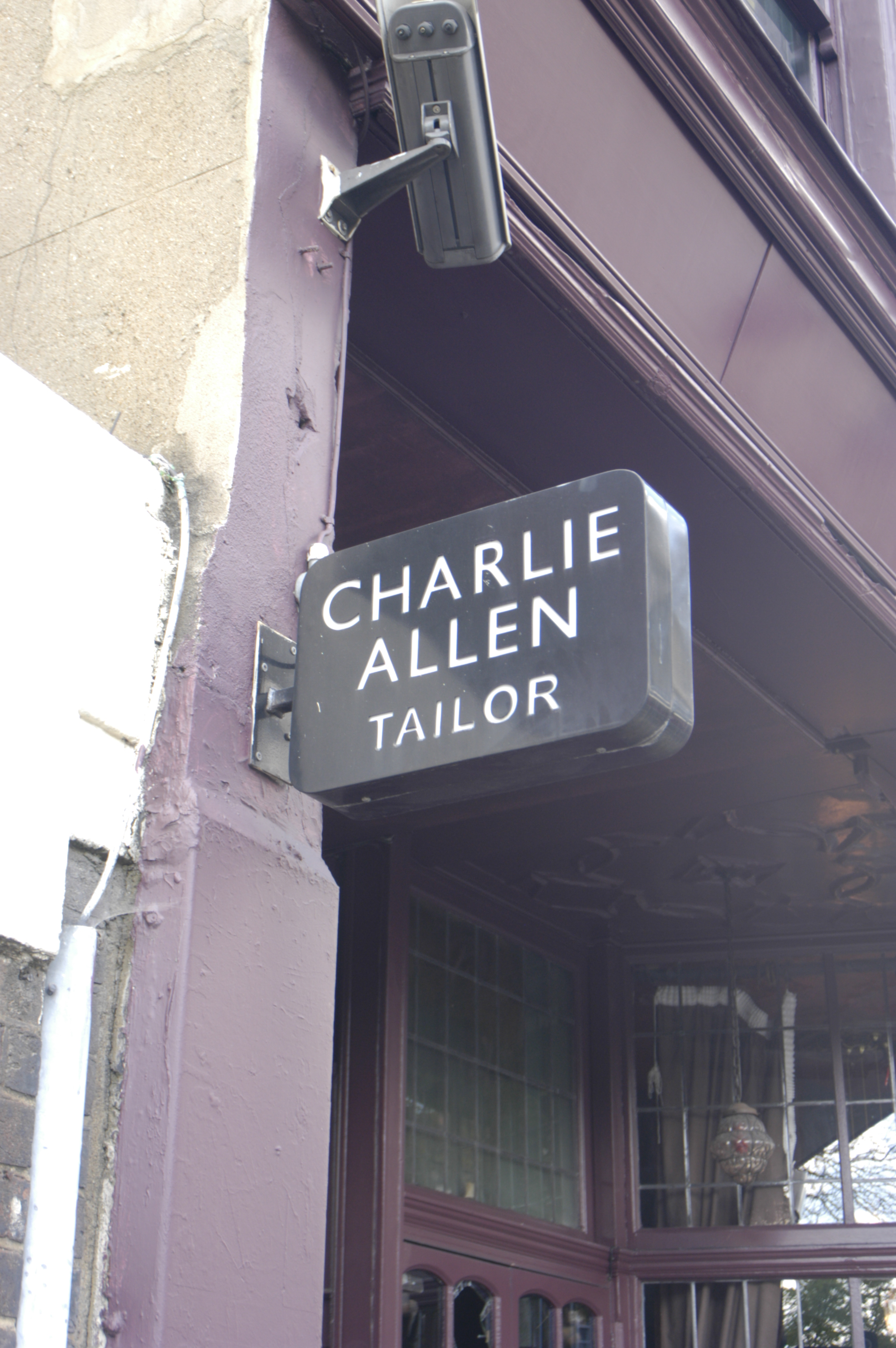 photo of Charlie Allen's Upper Street sign, taken May 2013 by me Rodolph de SalisRodolph (talk) 22:10, 22 May 2013 (UTC)